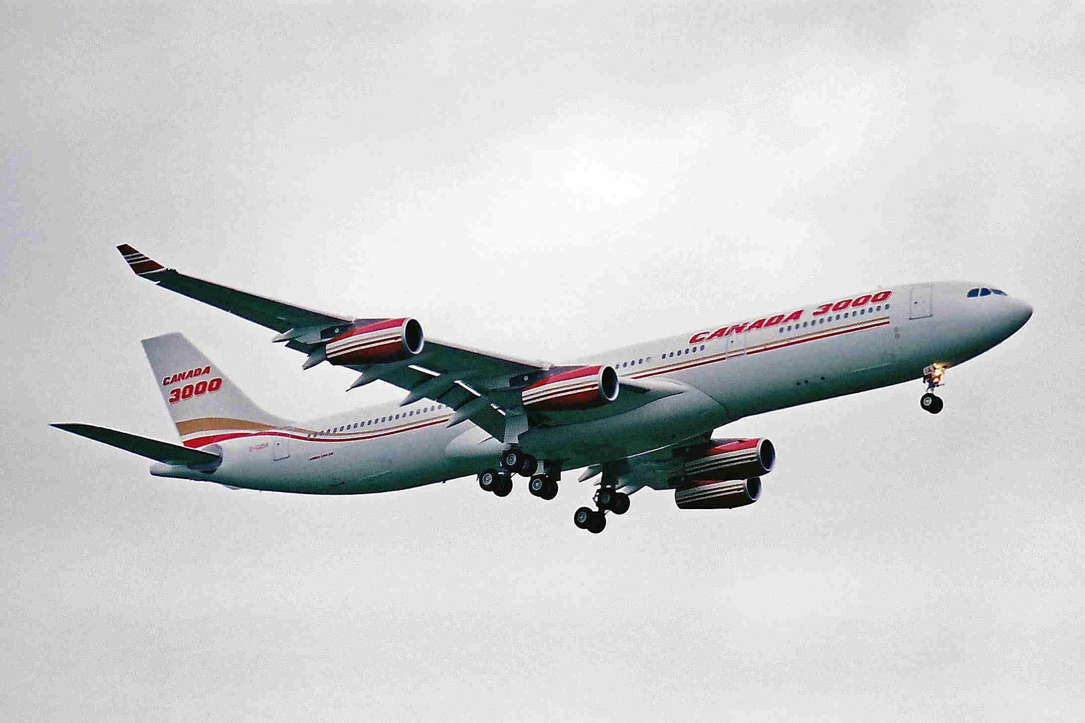 This is a very rare bird indeed. Originally ordered by Sabena (as OO-SQB), it was never delivered and was leased to Canada 3000 to start non-stop services between Toronto (YYZ) and Delhi (DEL). It was delivered on 19-Sep-01 and entered service 10 days later operating into Manchester (MAN). Just five and a half weeks later, on 07-Nov-01, Canada 3000 ceased trading. The aircraft was repossessed by ILFC and was later (Mar-02) leased to Air Tahiti Nui as F-OJTN. As of Apr-12 it's still in service.